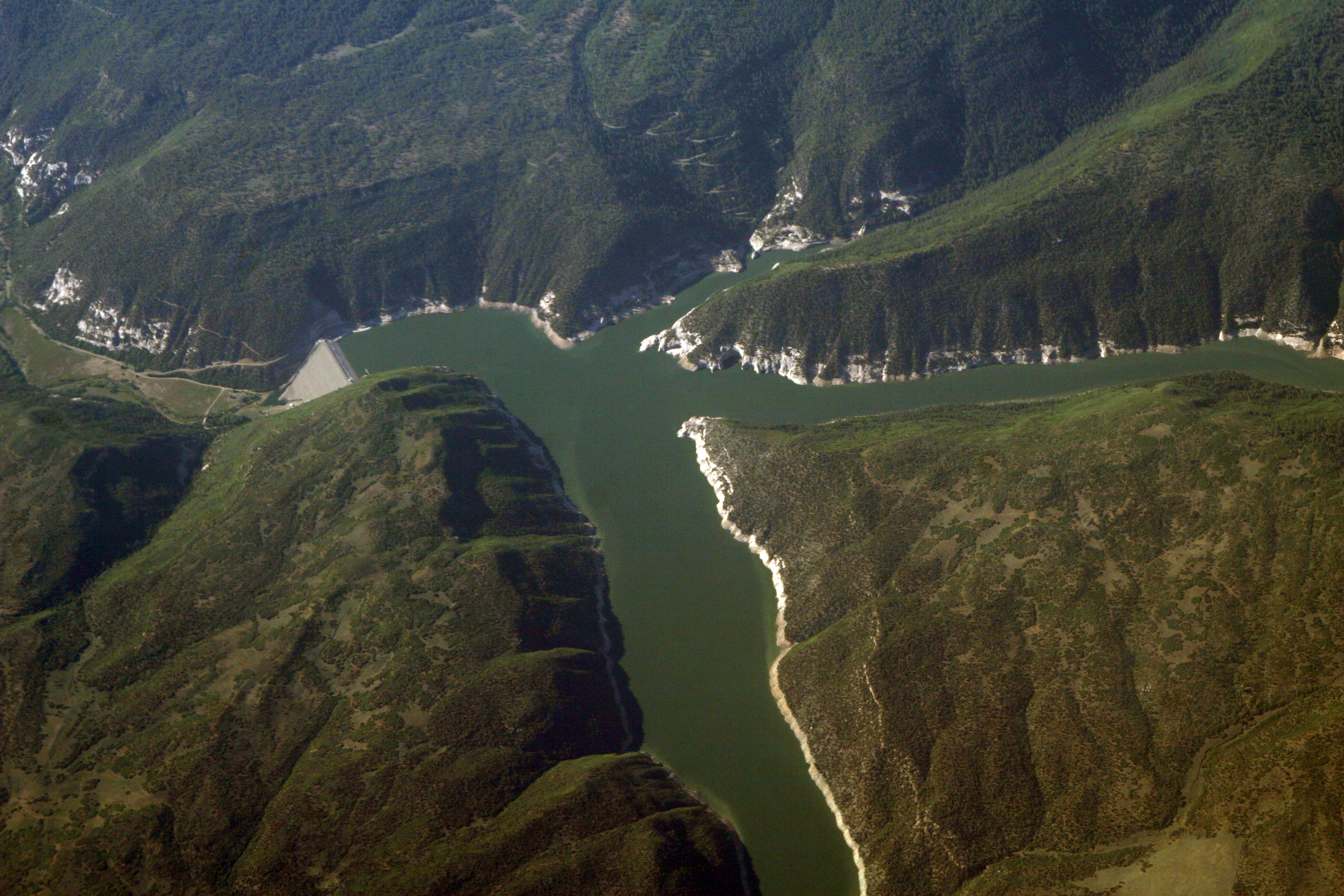 McPhee Reservoir in the Dolores River. It is named for the late lumber town drowned by the lake created by the dam.